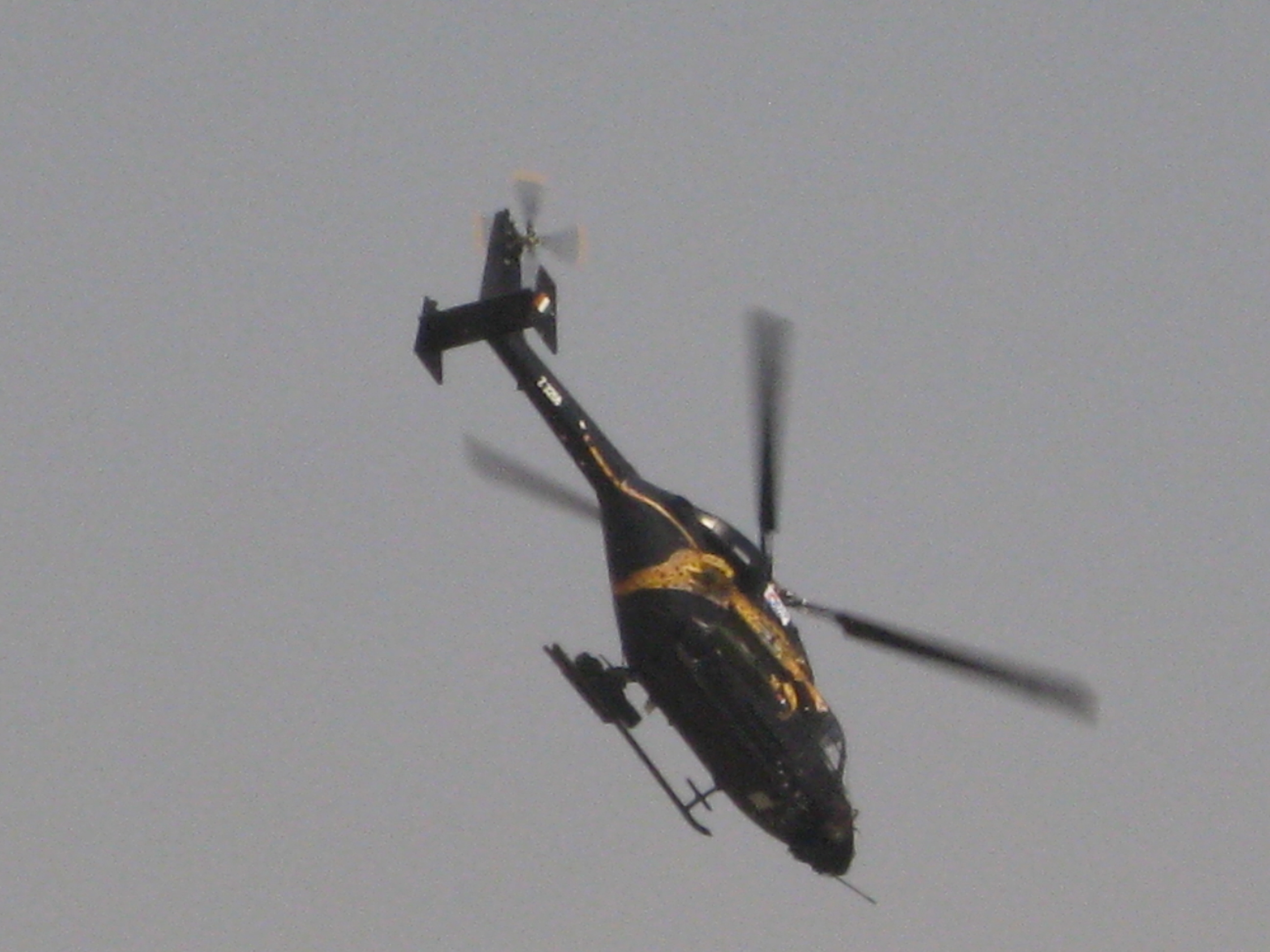 A HAL Dhruv performing aerobatics at Aero India 2009.